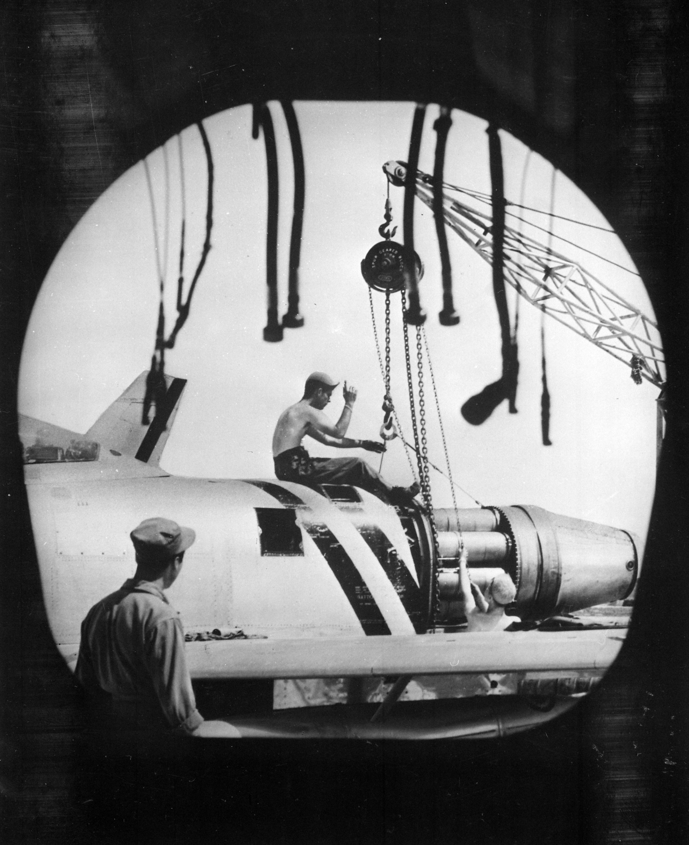 Maintenance on the General Electric J47-GE-13 engine of a U.S. Air Force North American F-86A Sabre from the 4th Fighter Wing in Korea, 1952. Original caption: "An aircraft maintenance crew of the U.S. Air Forces 4th Fighter-Interceptor Wing in Korea, photographed through the tail-pipe of an F-86 Sabre, hoists an engine into place for installation on one of the jet fighter planes., 09/1951"